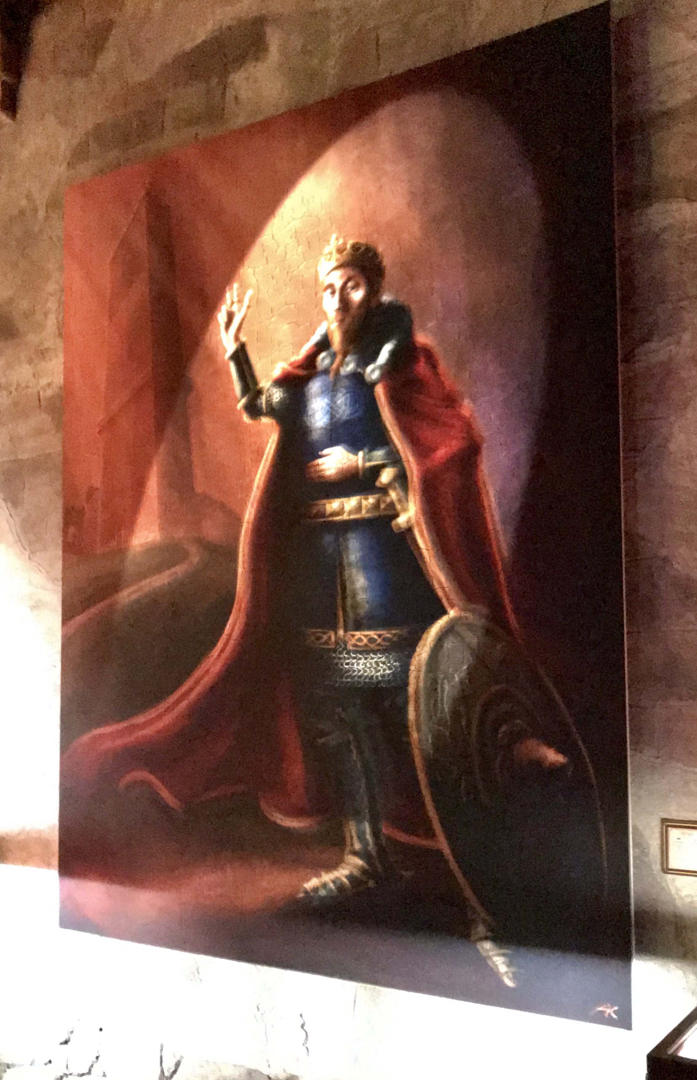 A painting of King Erik Menved in Der Schwur des Kärnan's queue line